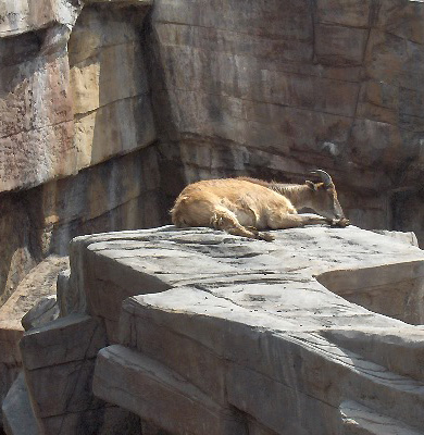 Species Hemitragus jemlahicus Family Bovidae